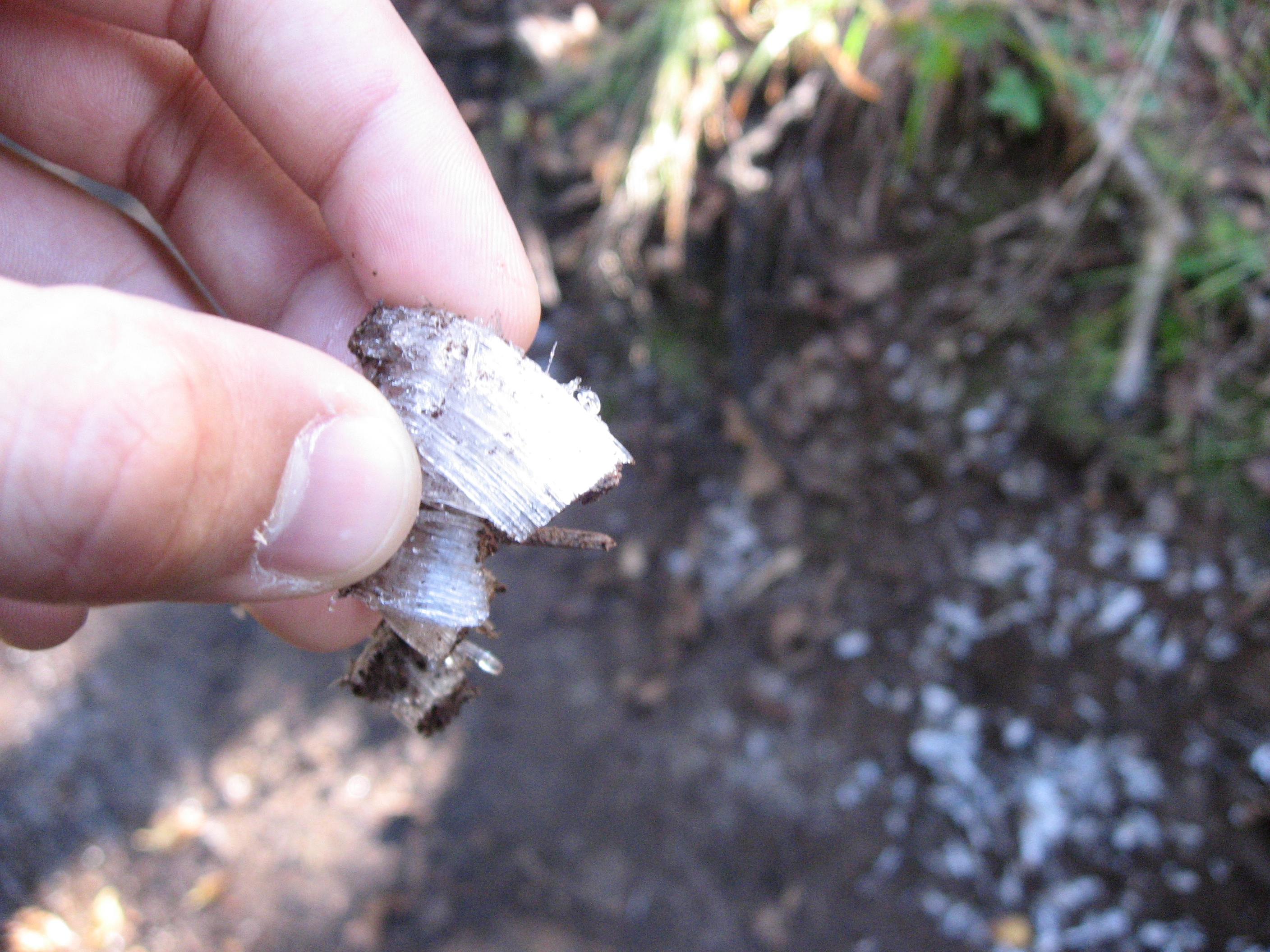 Needle ice. Ground ice curls close-up, found in the Adirondack Region of New York State. [1]